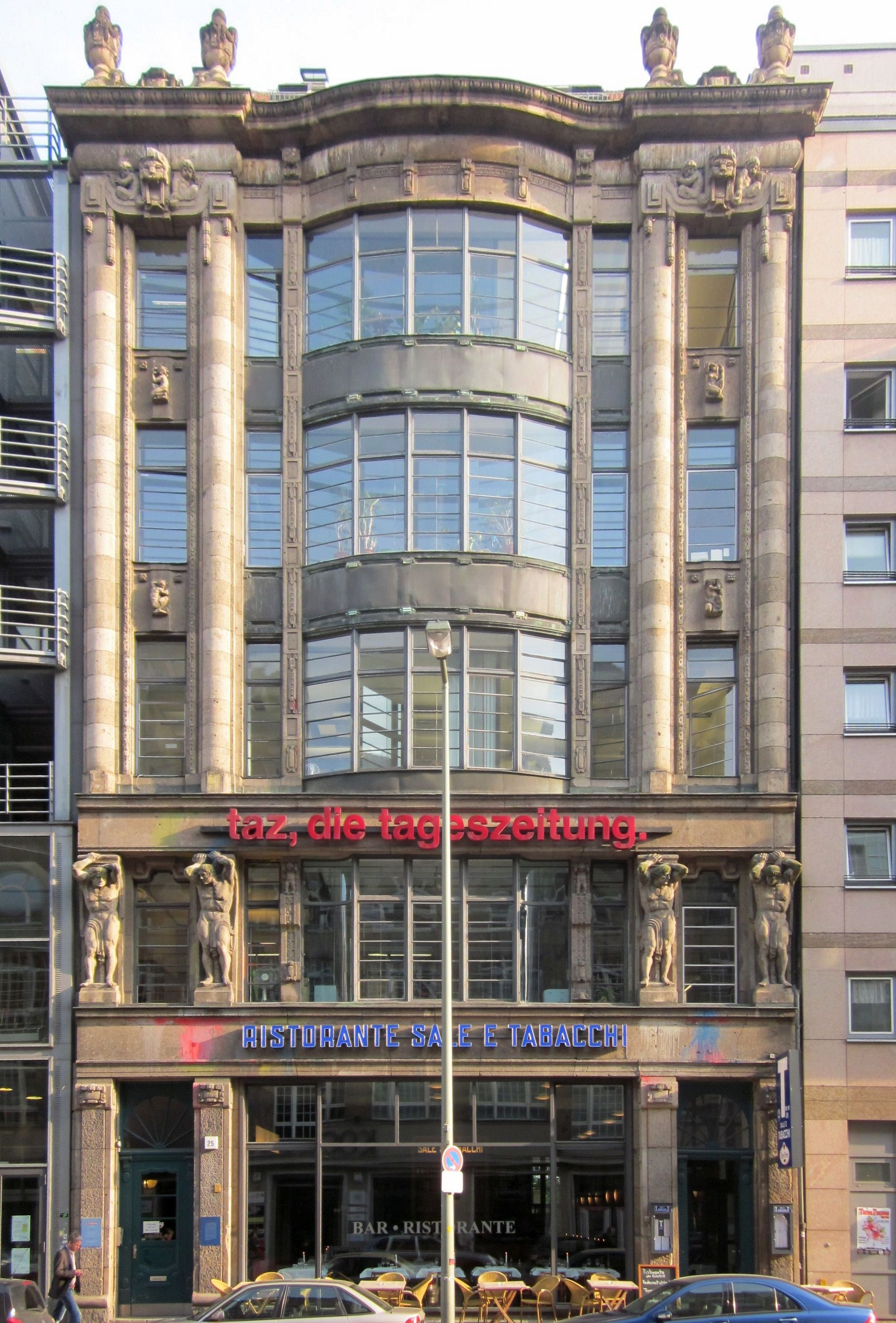 Old building of the Rudi-Dutschke-Haus at Rudi-Dutschke-Straße No. 25 in Berlin-Kreuzberg. The building was constructed in 1909 by C. Kuhn as a commercial building and has been the seat of the editorial offices of the newspaper Tageszeitung (Taz) since 1989. An moderner annex at Rudi-Dutschke-Straße No. 23 was built from 1990 to 1991 to a design by the architects Gerhard Spangenberg and Brigitte Steinkilberg. The old building of the Rudisch-Dutschke-Haus has been designated as a cultural heritage monument.